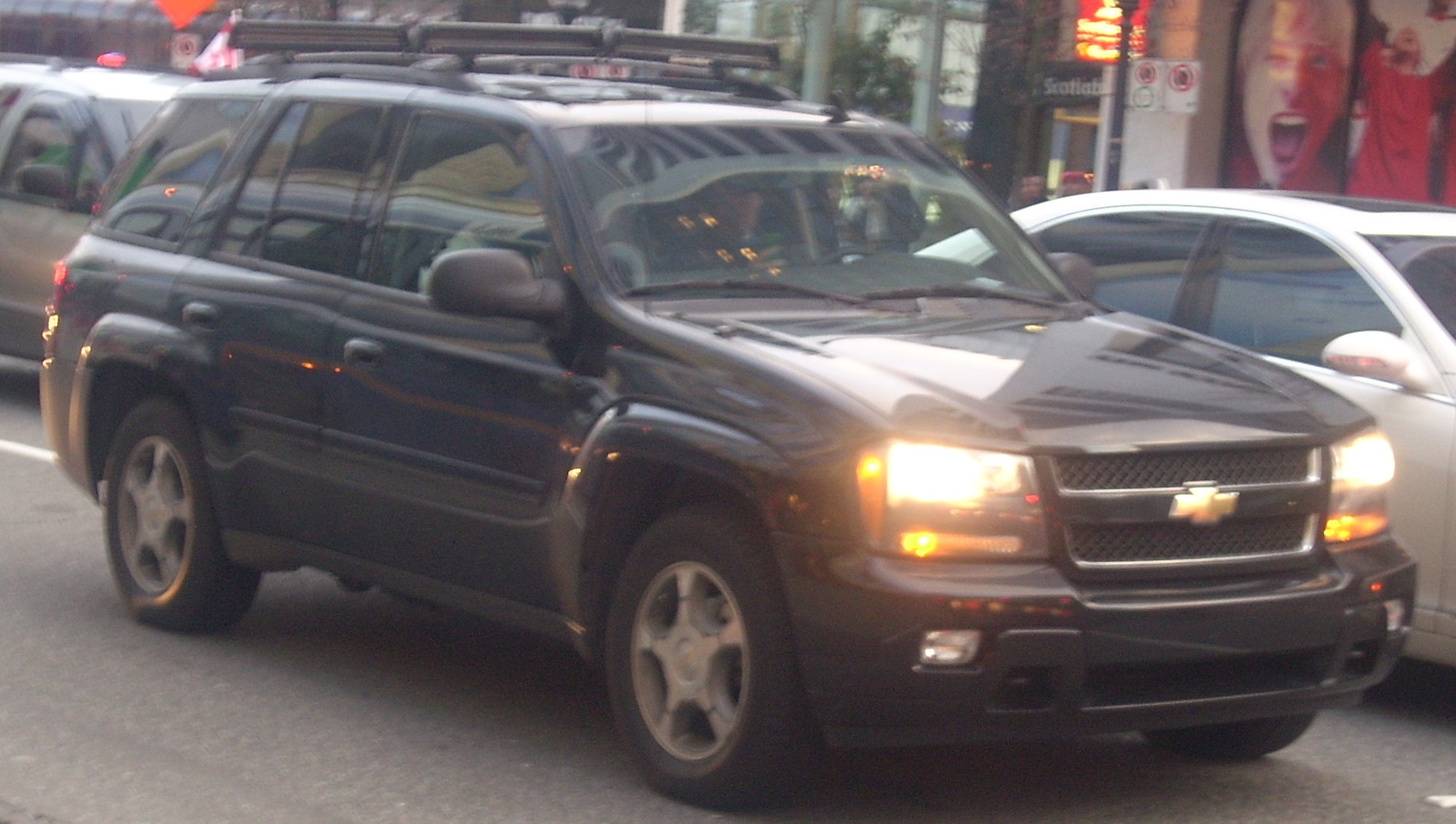 2006-2009 Chevrolet TrailBlazer photographed in Vancouver, British Columbia, Canada at the 2010 Winter Olympic Games.